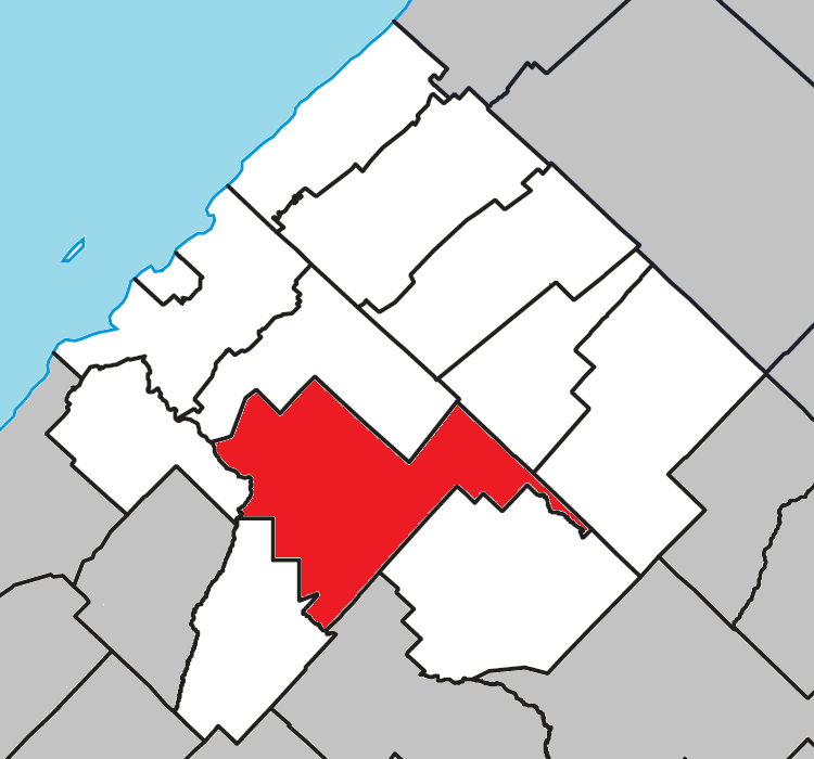 Location of Saint-Jean-de-Dieu, Quebec within Les Basques Regional County Municipality.